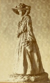 Identifier: A1621-00242 Date: 1905-05 Decade: 1900-1909 Creator: Risque, Caroline, 1883-1952 Types: Serial , Page Subjects: Art , Women , Artists , Sculpture Rights: IN COPYRIGHT Permalink: Description: "Clay Sketch" by Caroline Risque, photographs of her sculptures, page two